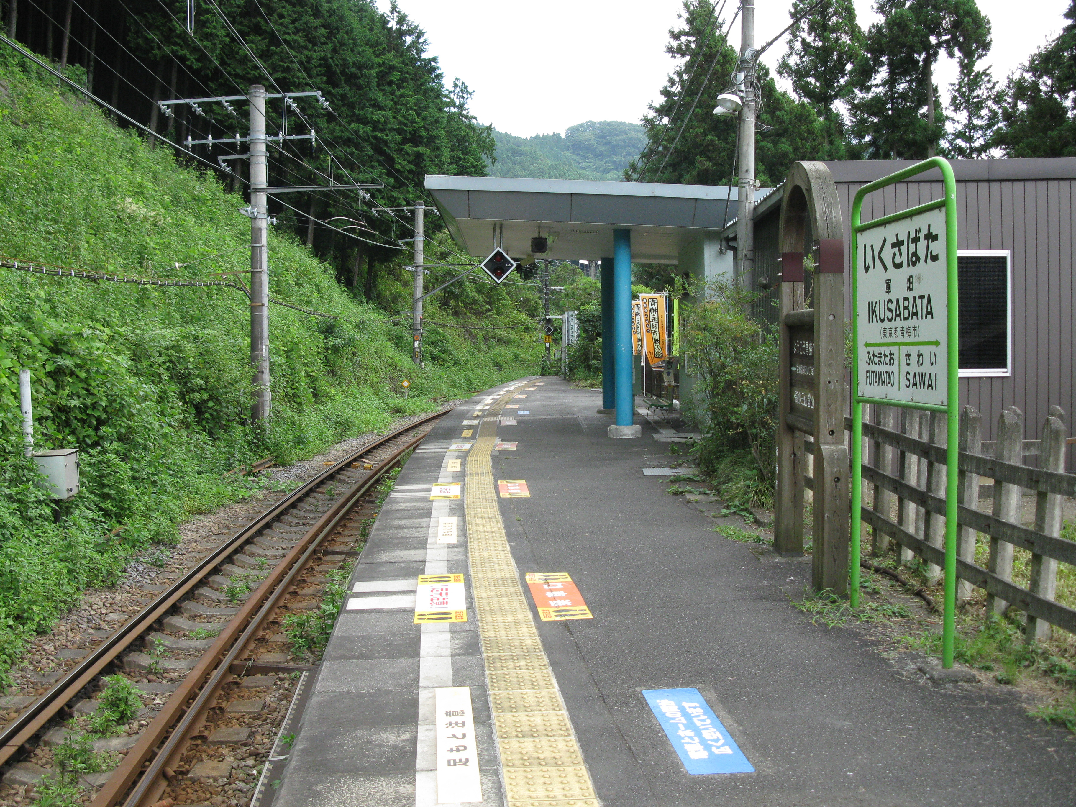 Ikusabata Station platform (East Japan Railway Ōme Line)